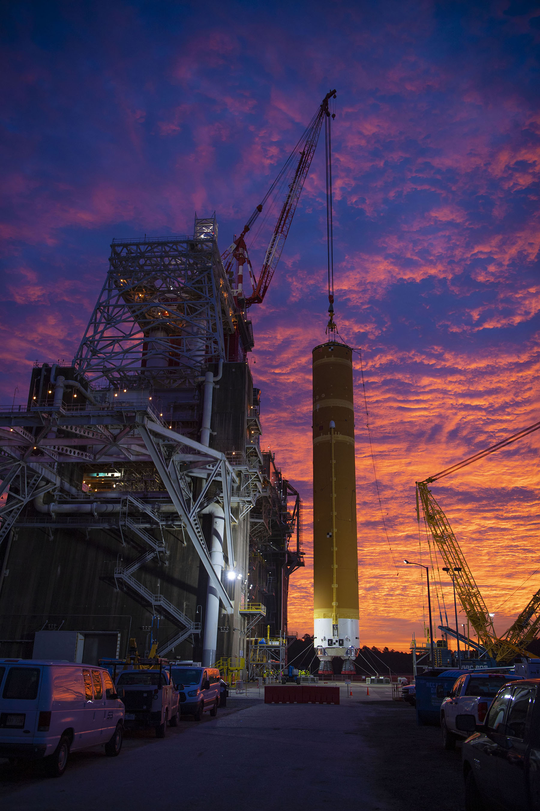 The Green Run testing will be the first top-to-bottom integrated testing of the stage’s systems prior to its maiden flight. The testing will be conducted on the B-2 Test Stand at Stennis, located near Bay St. Louis, Mississippi, and the nation’s largest rocket propulsion test site. Green Run testing will take place over several months and culminates with an eight-minute, full-duration hot fire of the stage’s four RS-25 engines to generate 2 million pounds of thrust, as during an actual launch.